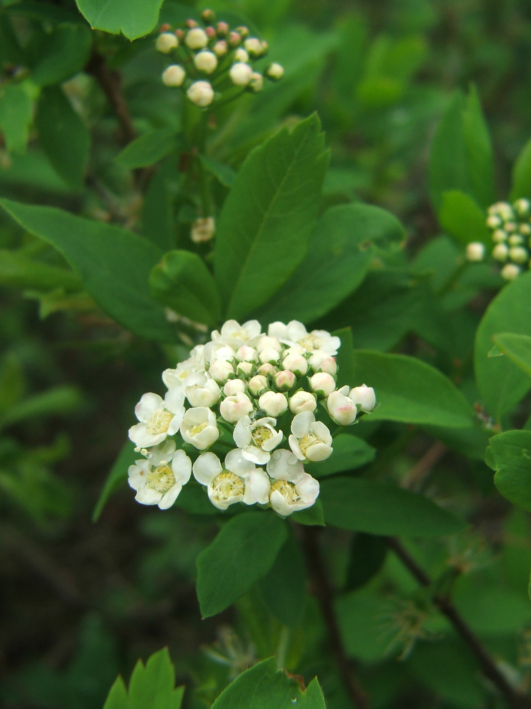 Spiraea media